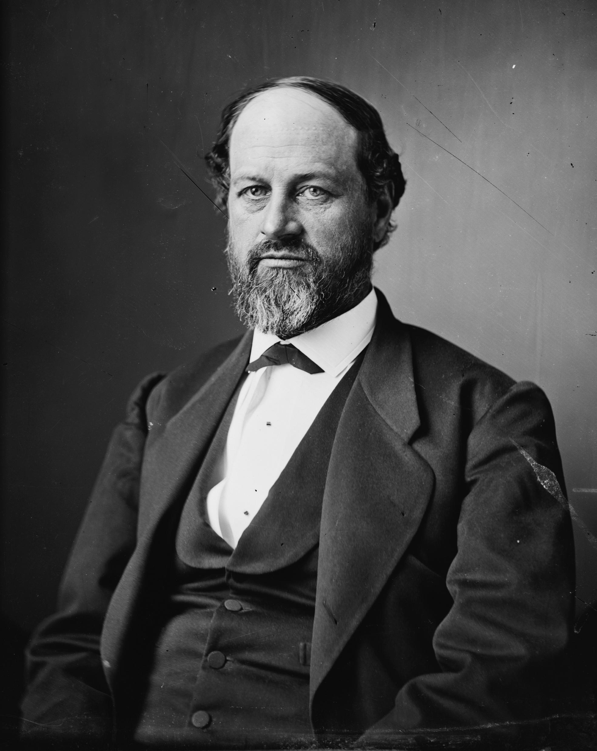 David Perley Lowe. Library of Congress description: "Lowe, Hon. David Perly of Kansas".